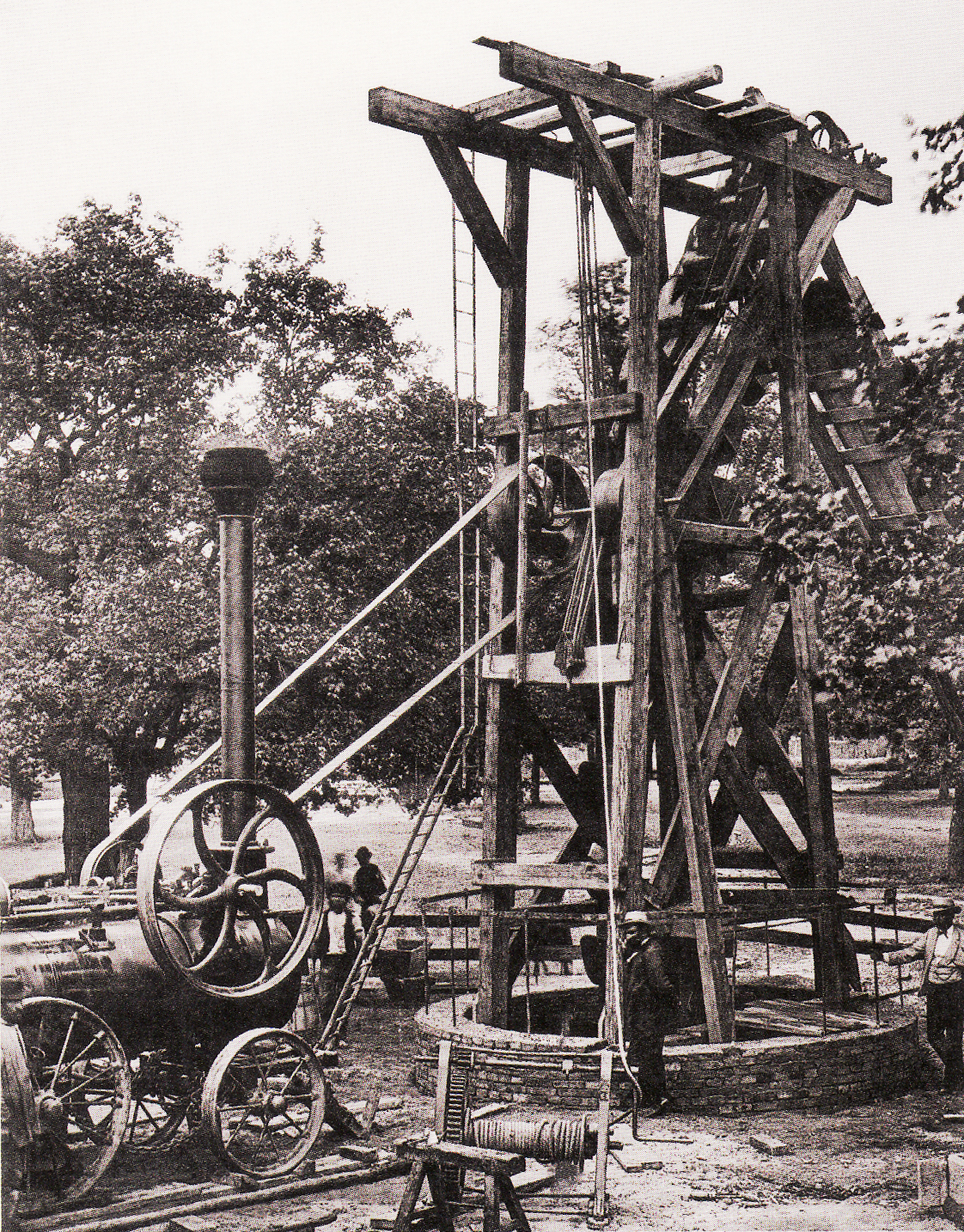 Bricked well, water supply on the Expo 1873